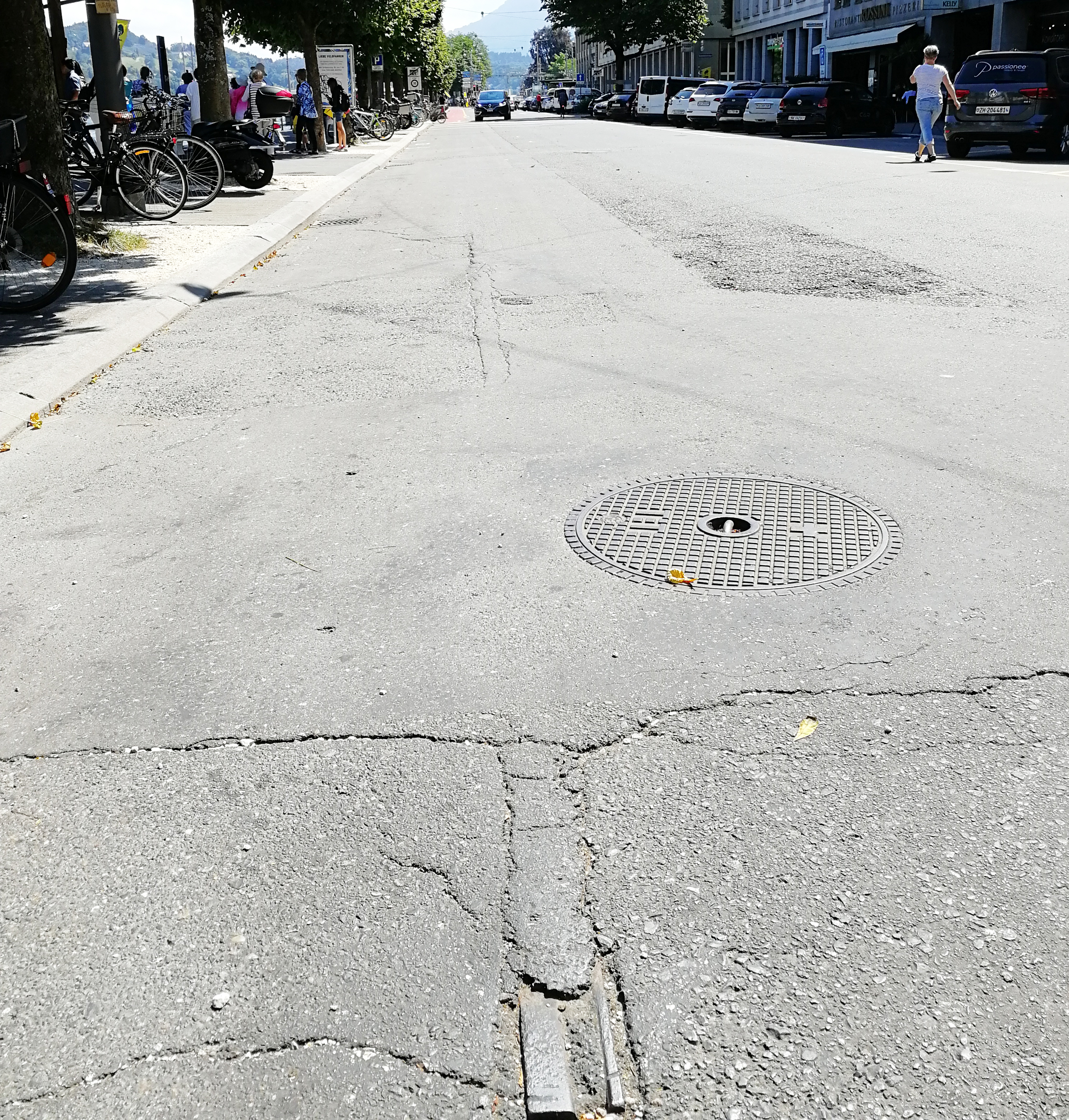 Partly covered tram track in Lucerne on Bahnhofstrasse, where regular Trams ran until 1927. Used for runs to the theatre until the 1950ies